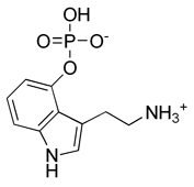 Chemical structure of Norbaeocystin Selfmade by cacycle